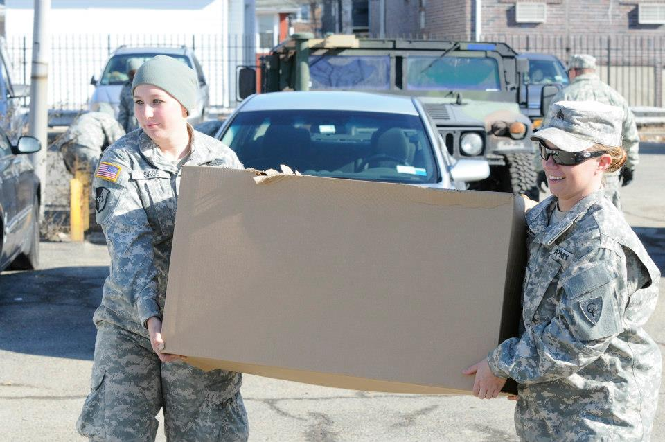 SPC Allison Sage of the 1049th TC and Sgt Lauren Fratelli of the 238th GSAB unload blankets at the Mt. Caramel Baptist Church disaster relief point. (US Army Photo by Sgt 1st Class William Gates, DEARNG)